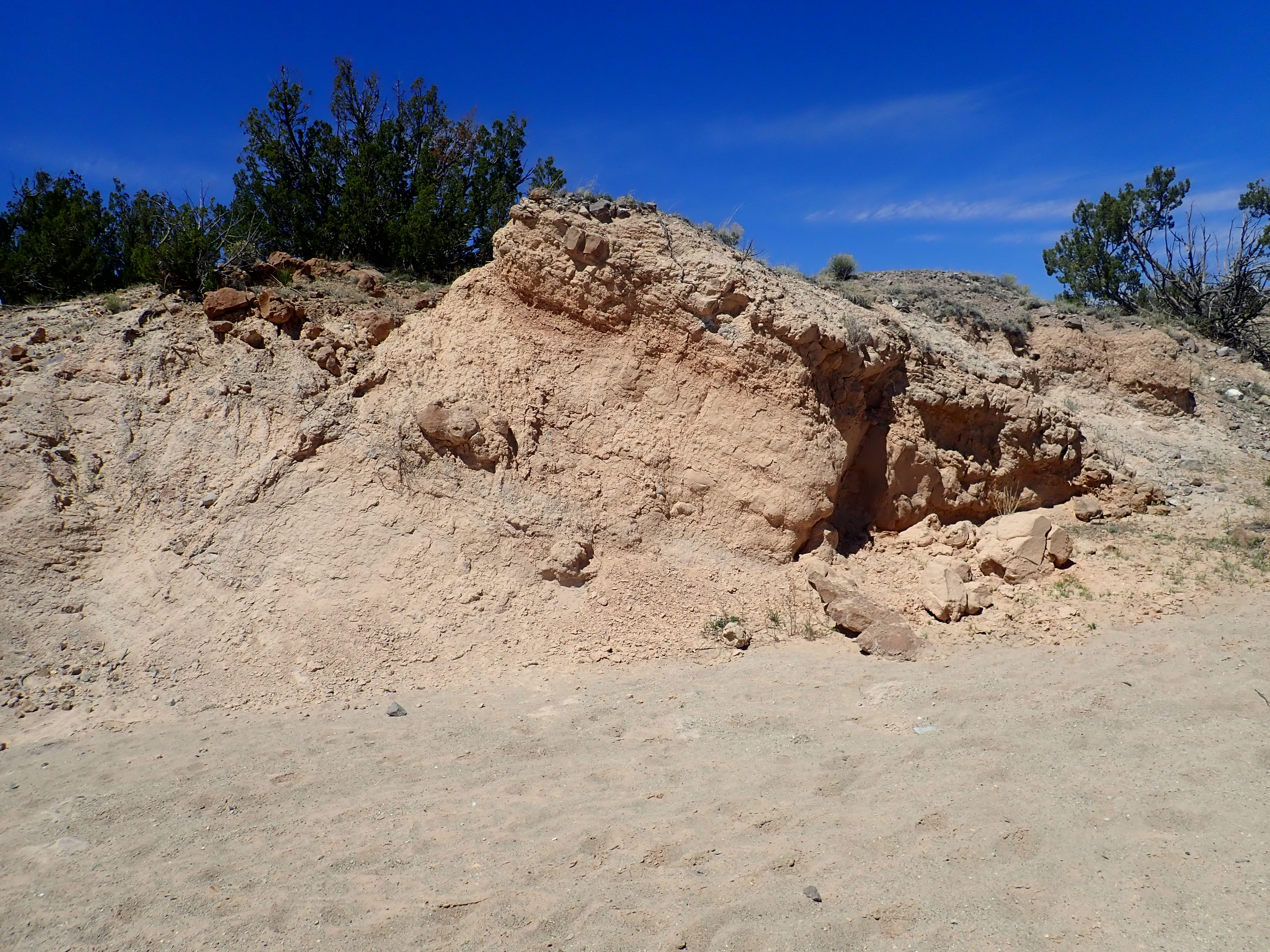 This image shows an outcrop of the Tanos Formation near Espinaso Ridge, New Mexico, USA. The Tanos Formation is an Oligocene formation of the lower Santa Fe Group, recording deposition in a closed basin of the early Rio Grande Rift.